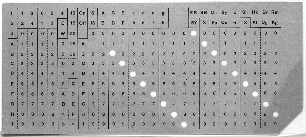 Image of punched card of Herman Hollerith